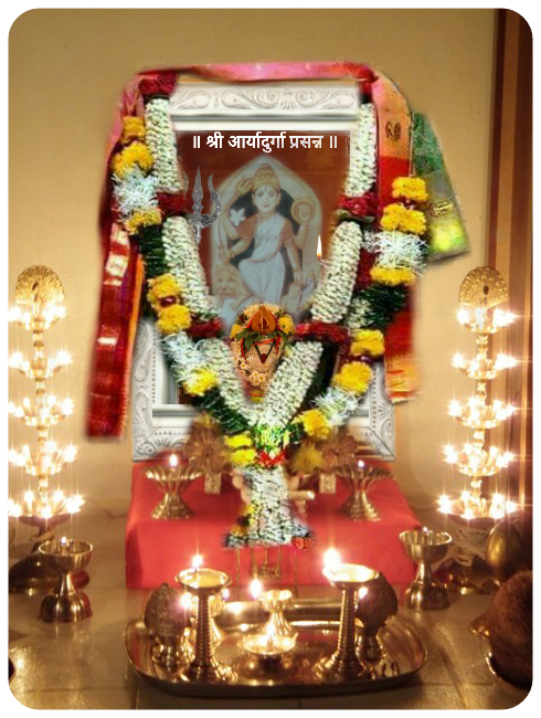 AAI